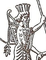 Cambyses II of Persia.